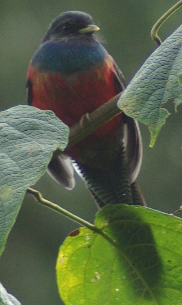 Subadult (?) male Bar-tailed Trogon, Apaloderma vittatum, Mountain Lodge, Kenya. The time stamp is 10 hours too early.